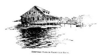 Hempsted Harbour Yacht Club House c 1894